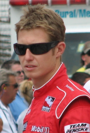 Ryan Briscoe at the Indianapolis Motor Speedway for Miller Lite Carb Day for the 2009 Indianapolis 500.